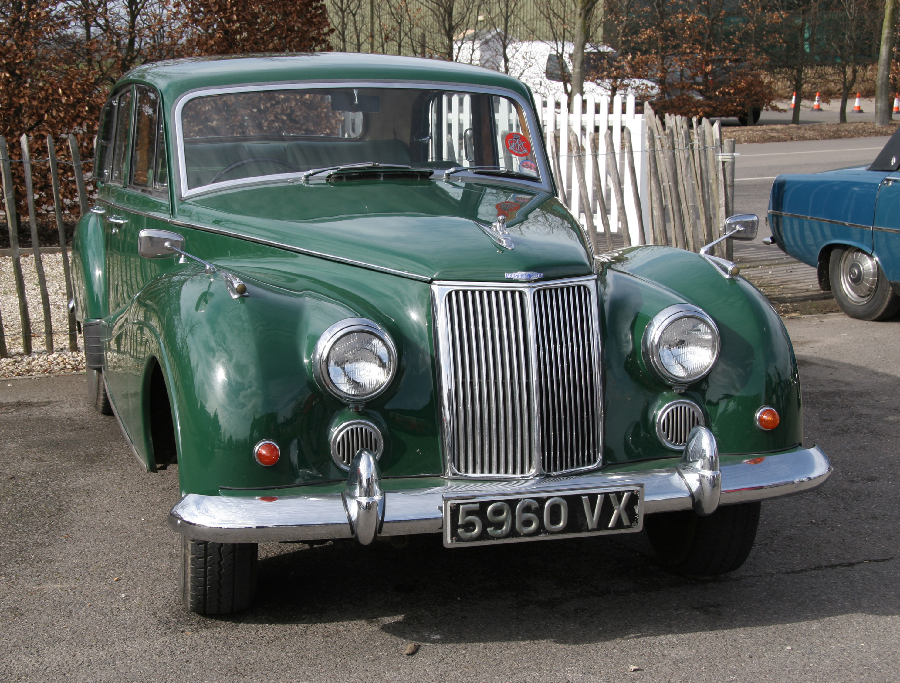 Armstrong Siddeley Star Sapphire